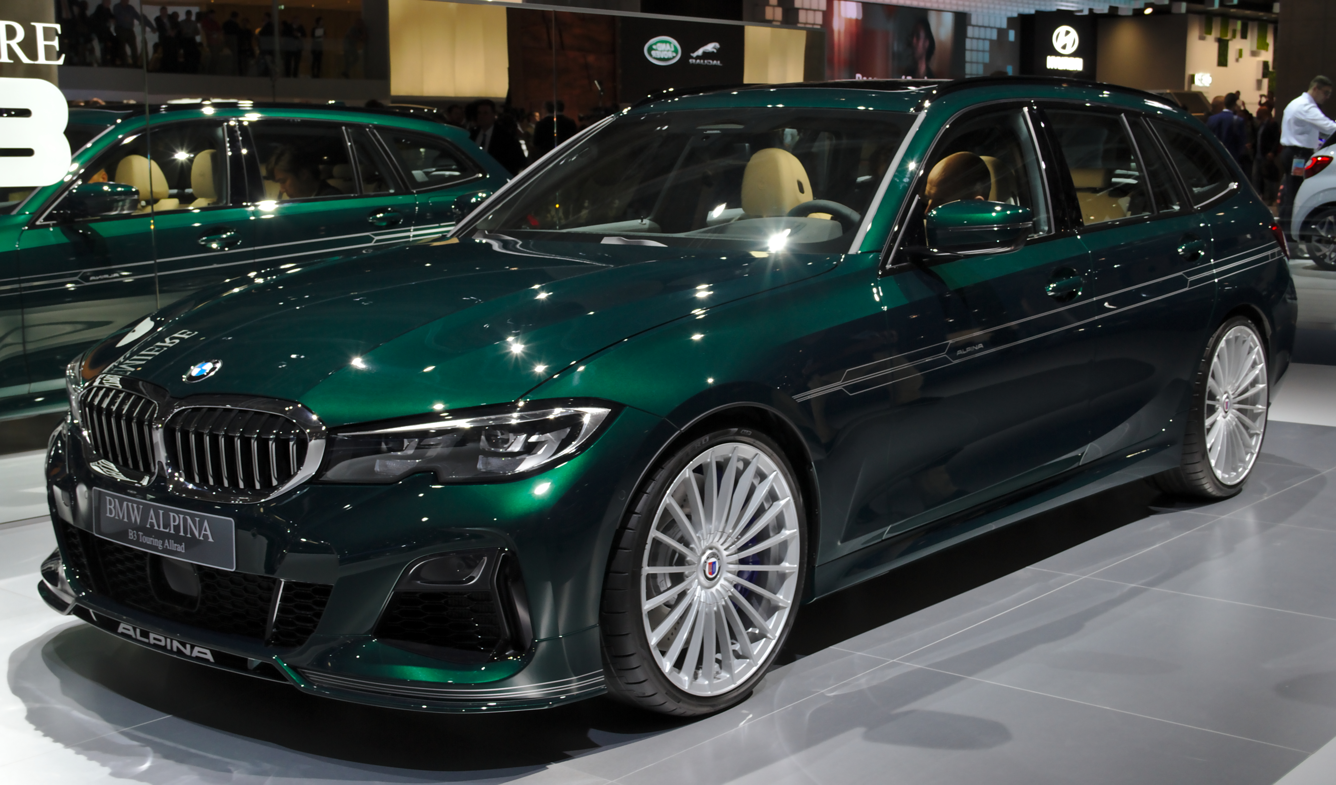 Alpina_B3_Touring_(G21) at IAA 2019